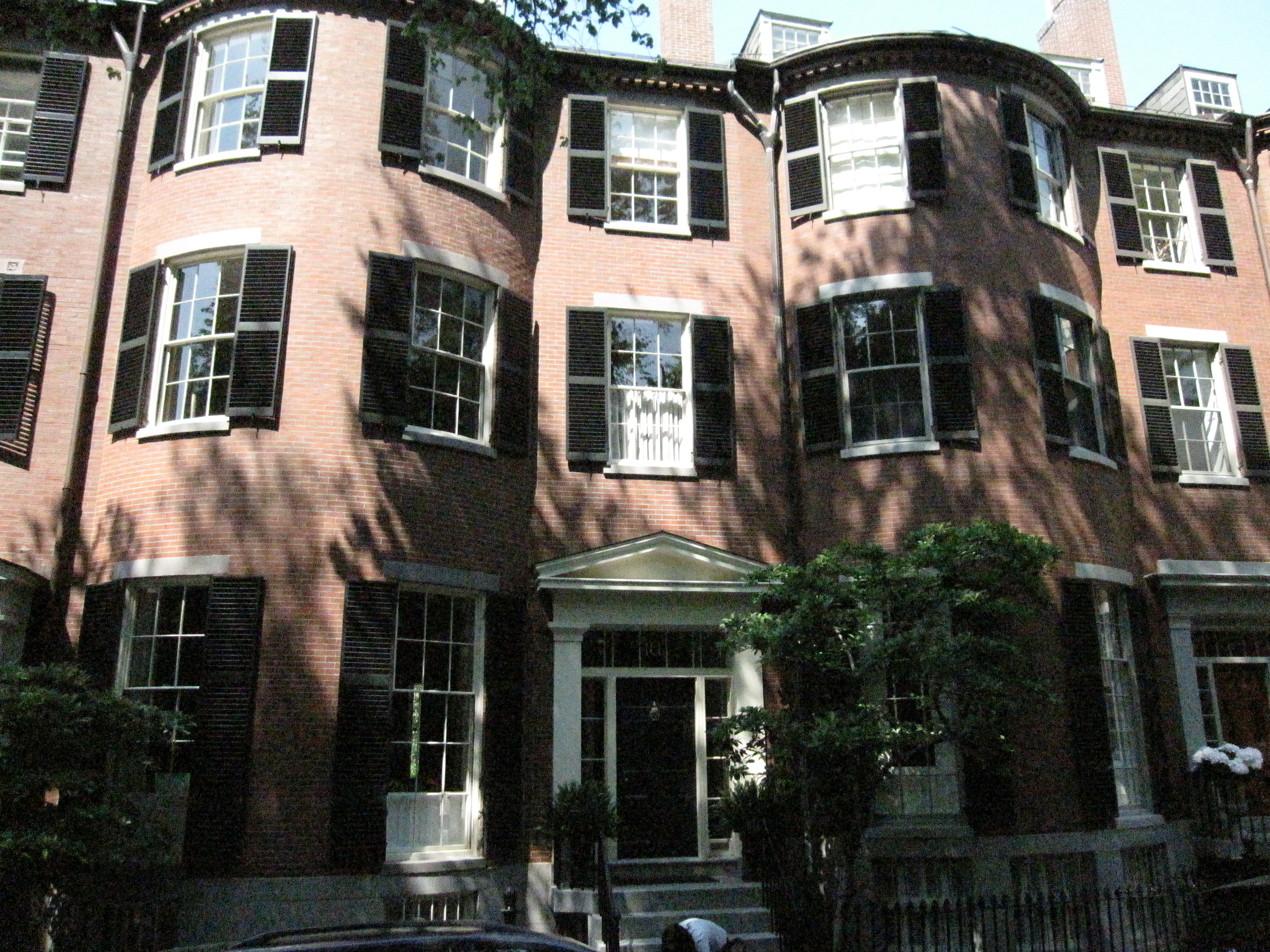 Louisburg Square, Boston, Massachusetts